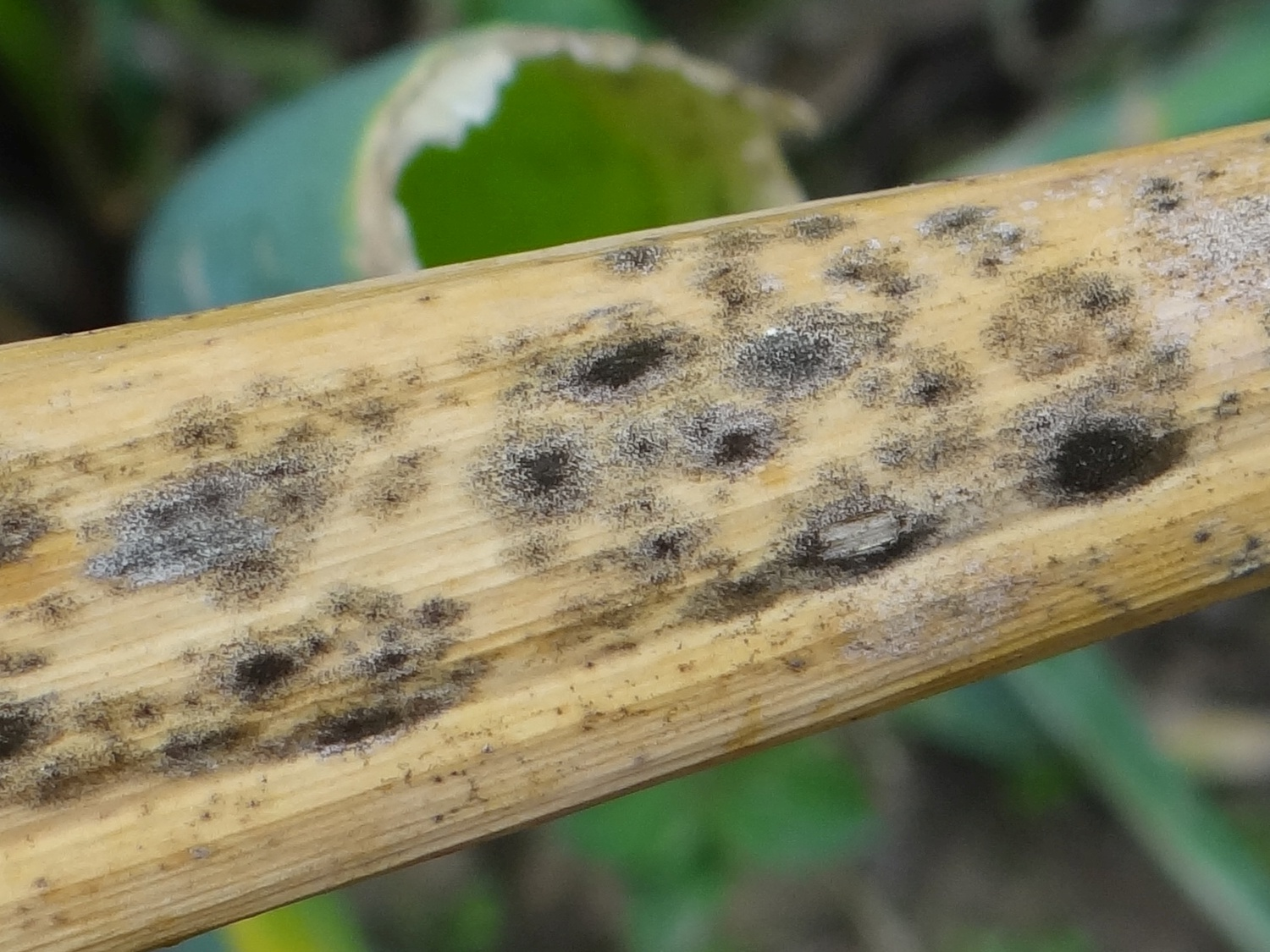 Botrytis allii on Allium cepa